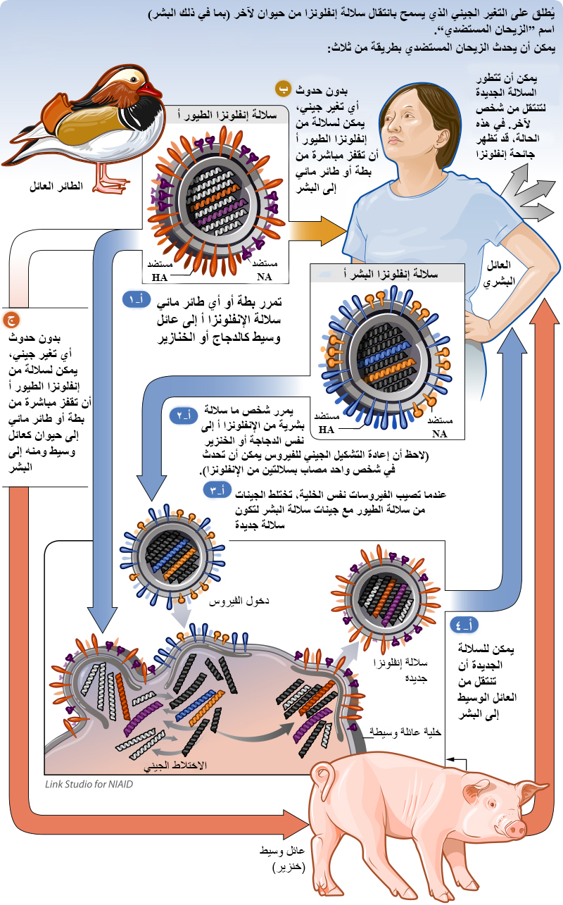 Illustration of antigenic shift